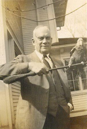 Family photo of DB Waldo and Parrot 'Jimmy Boy' in front of his home at 151 Thompson St. Kalamazoo, Michigan